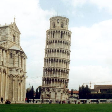 Leaning Tower of Pizza